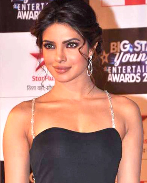 Priyanka Chopra at the BIG STAR Young Entertainer Awards 2012